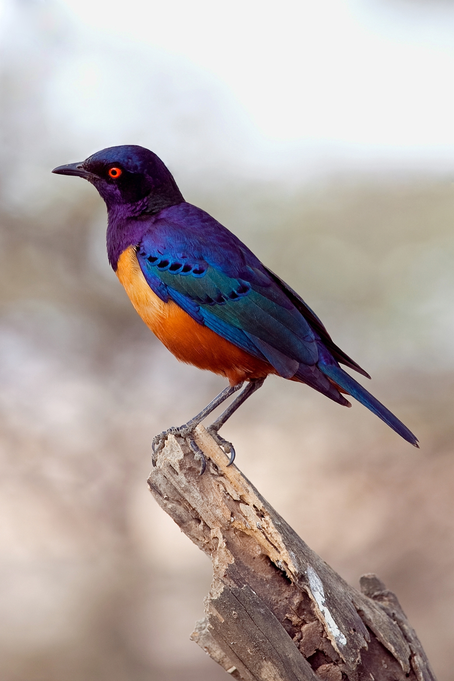 Hildebrandt's Starling in Tanzania.